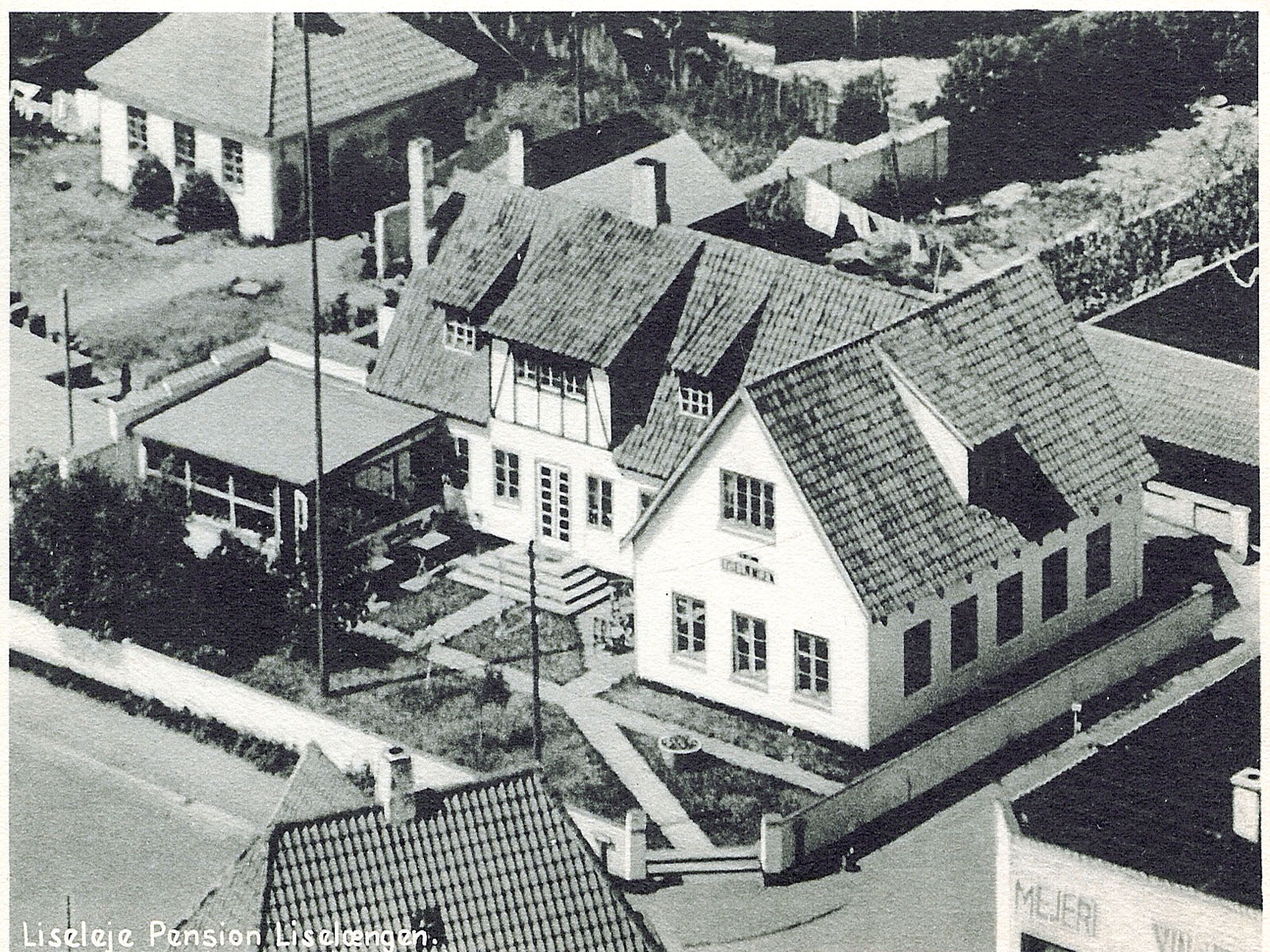 Aerial of Liselængen, a 1936 bording house in Liseleje, Denmark